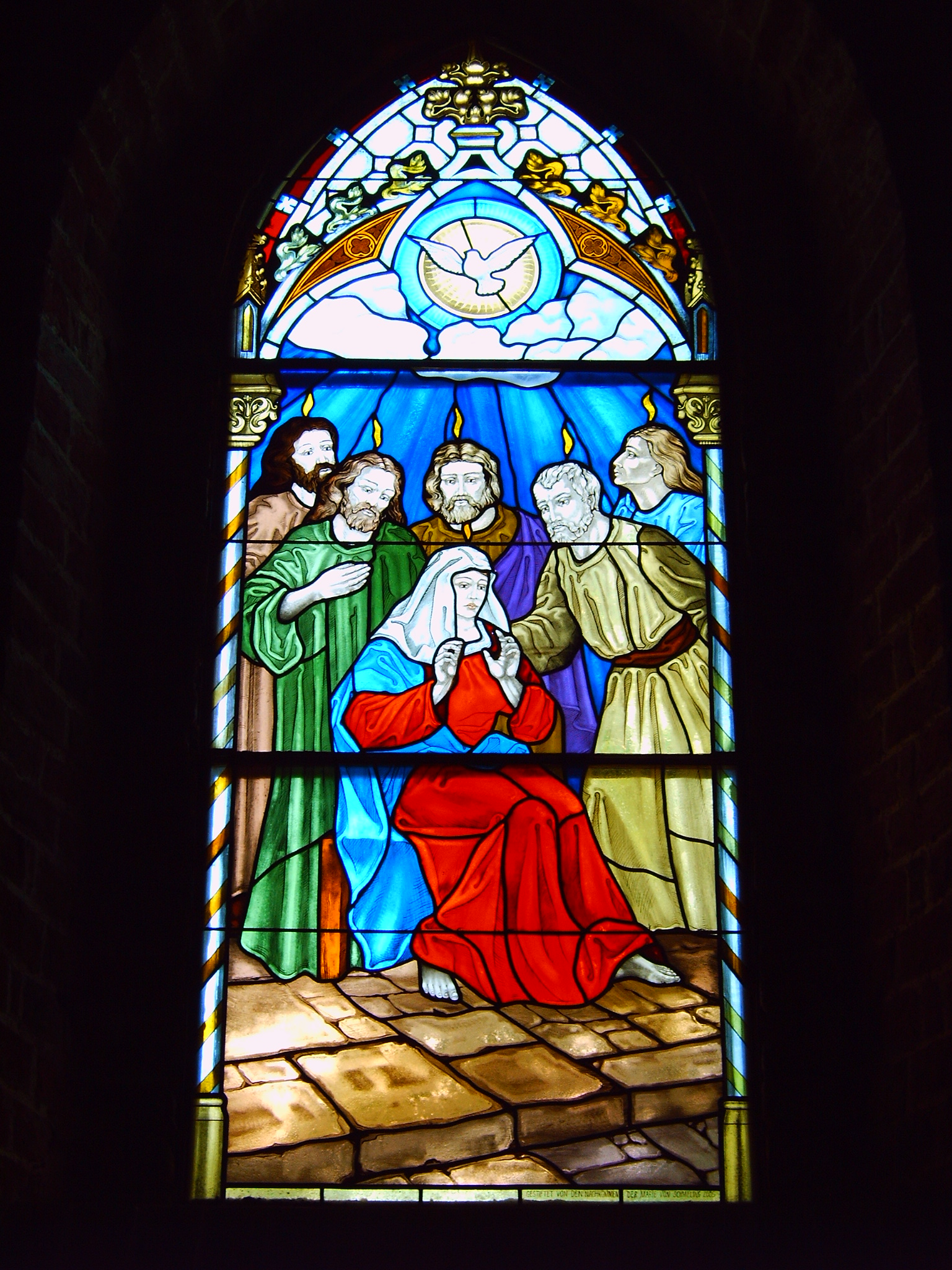 Poland, Mielno, church, stained glass - Pentecost